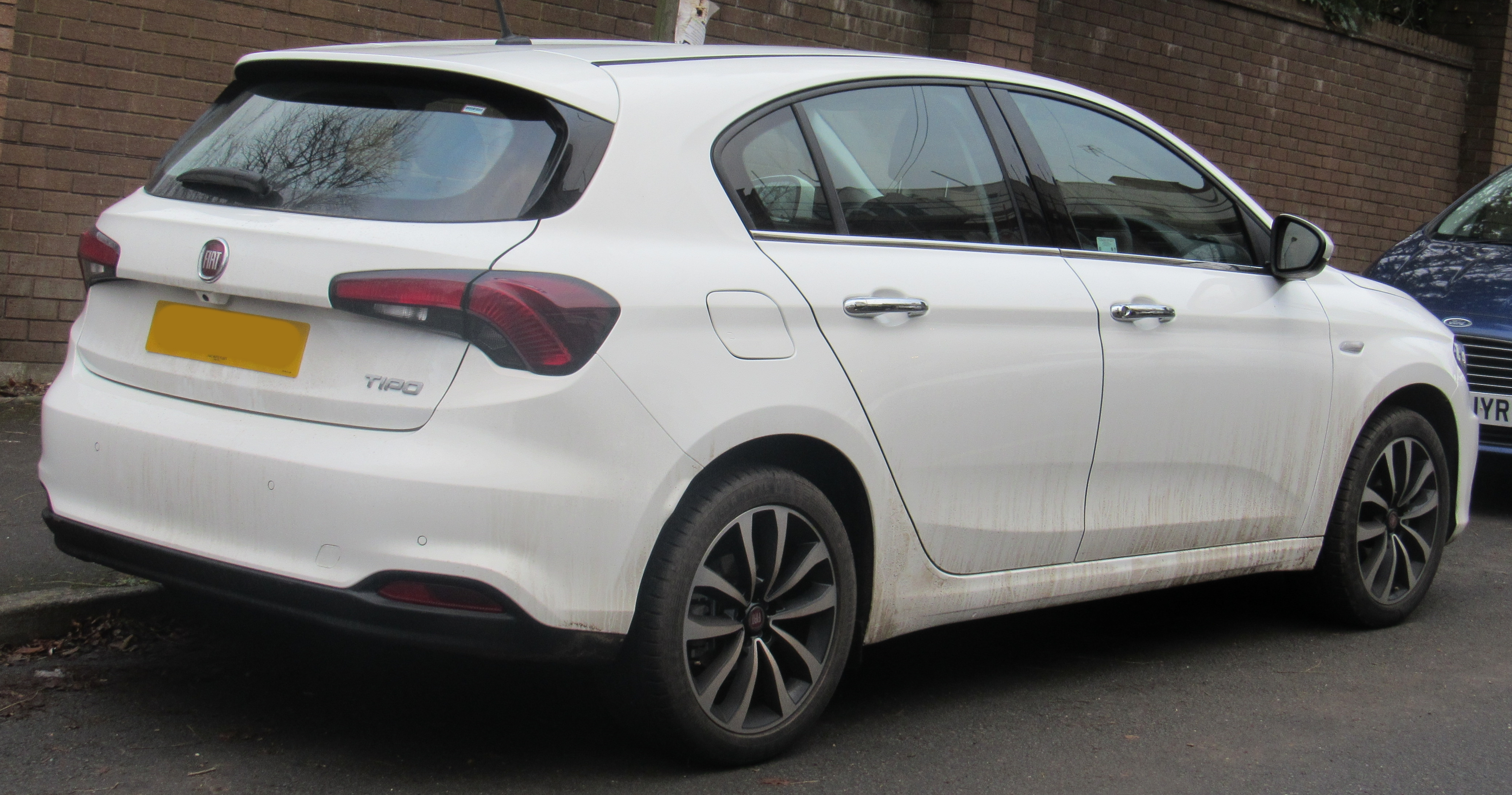 2017 Fiat Tipo Lounge 1.4 Rear Taken in Leamington Spa